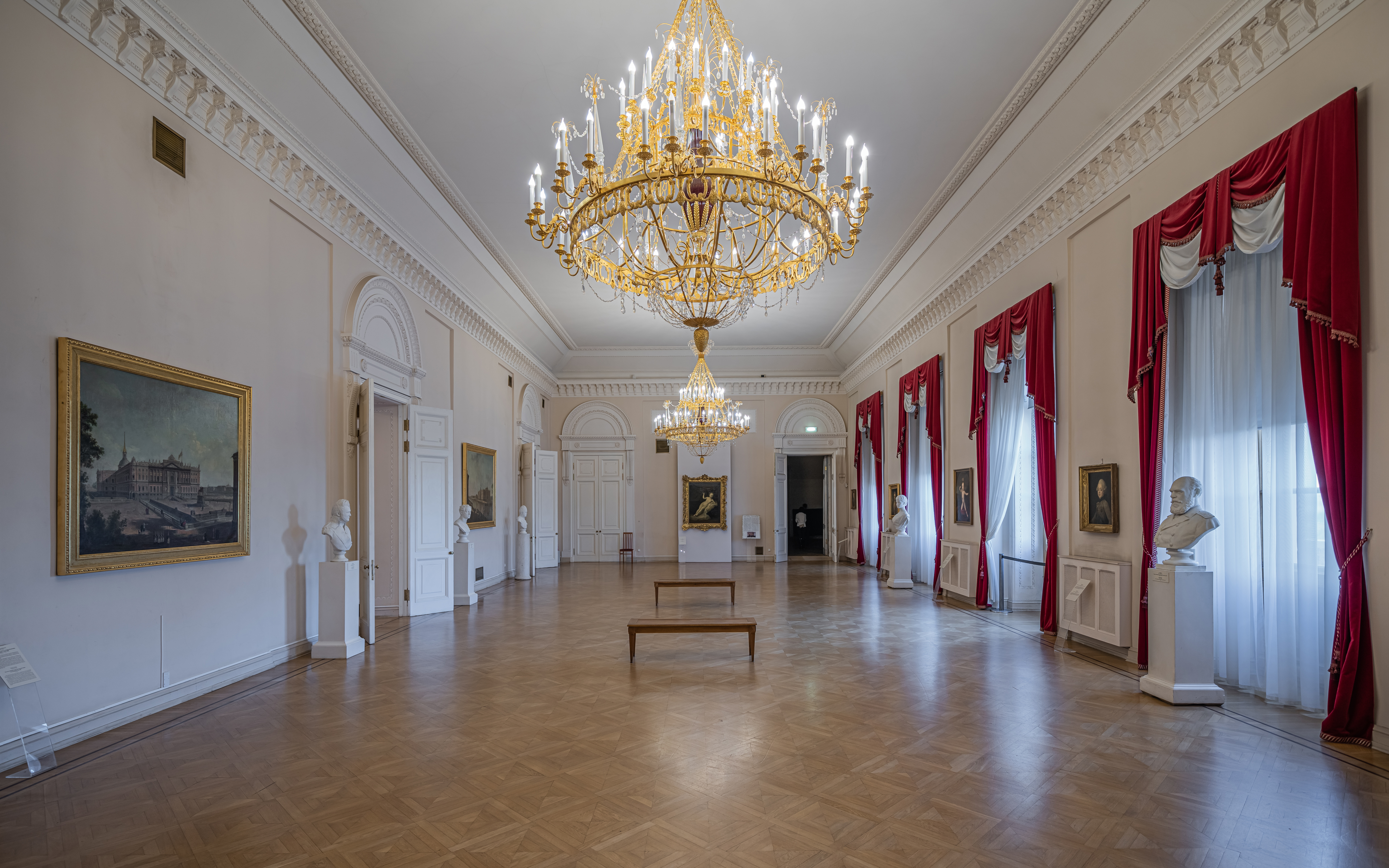 Interiors of St. Michael Castle in Saint Petersburg, Russia